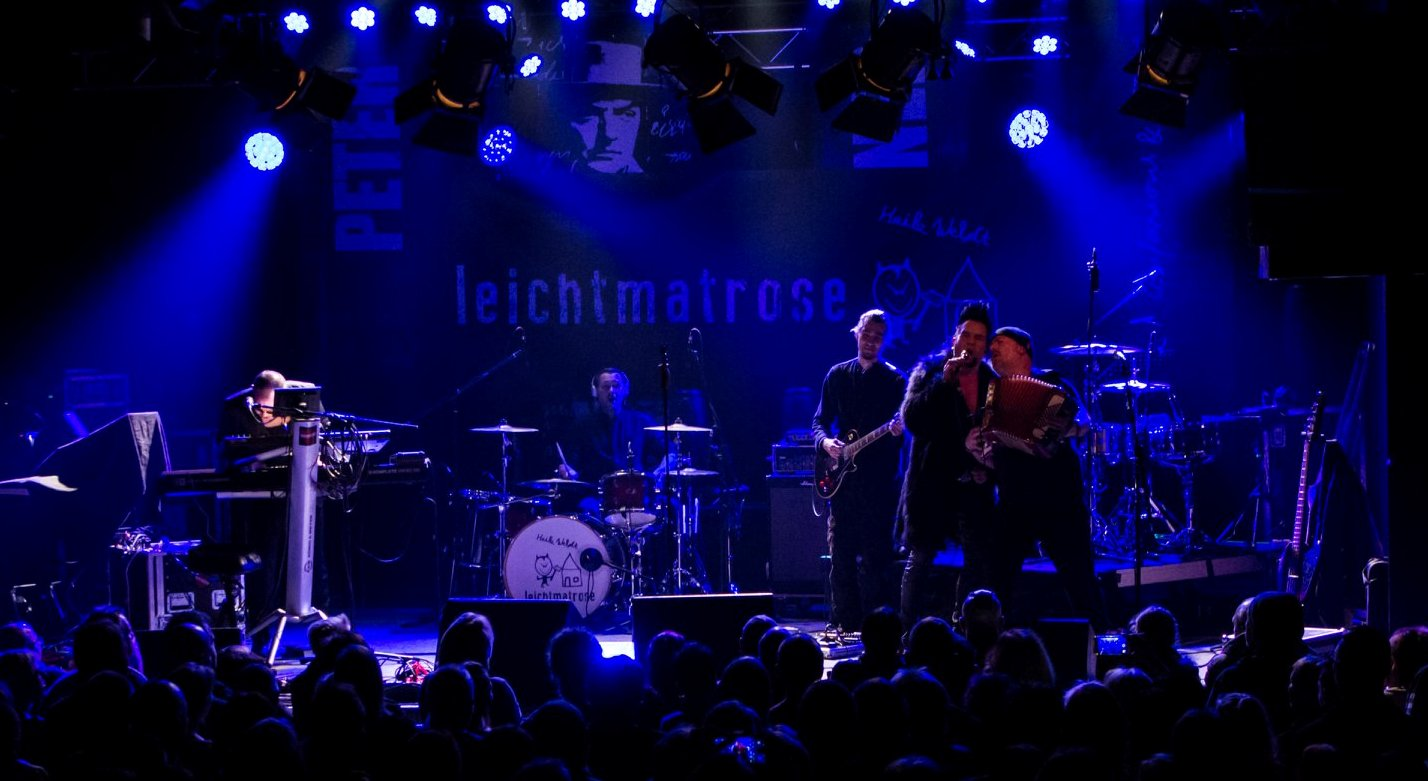 German electropop band Leichtmatrose as support for Peter Heppner during the Confessions & Doubts Tour at Alte Spinnerei, Glauchau (Germany).